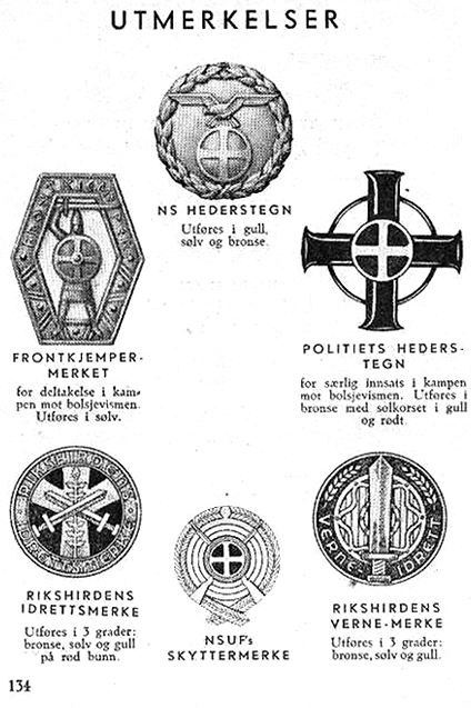 Uniforms and flags of the Nasjonal Samling (NS), Vidkun Qusiling's fascist party in Norway 1933–1945. Cropped images from a low-resolution PDF of NS årbok 1944 ( NS Yearbook 1944) published by "propaganda leadership" and printed in Gjøvik, Norway 1943: (NS was closed down in May 1945. No illustrator credited. In 2015 it’s 70 years after the release and the content of the book is believed to fall into the open by Norwegian copyright laws.)